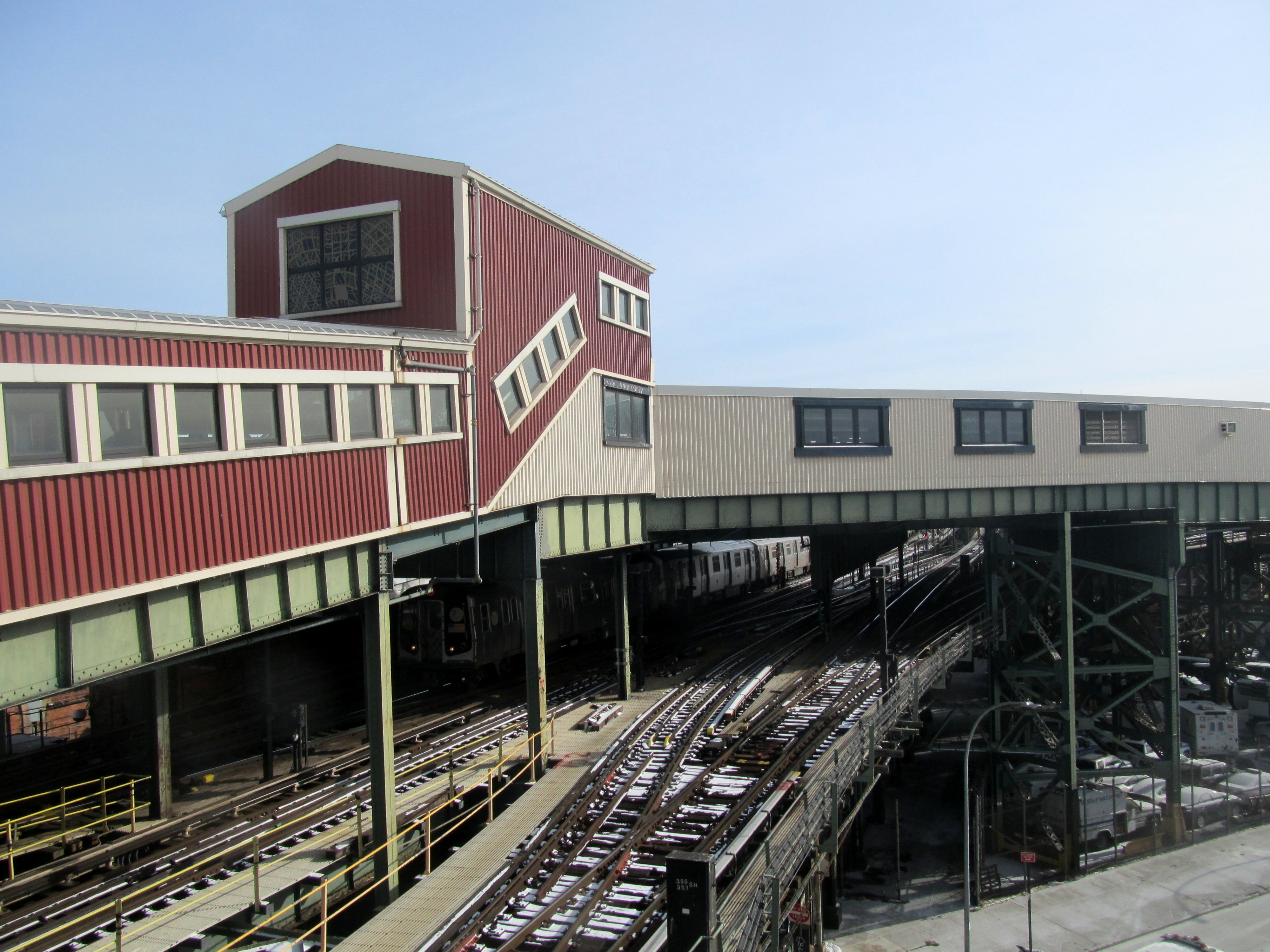 Connection between the Jamaica (left) and Canarsie lines at Broadway Junction station in December 2017